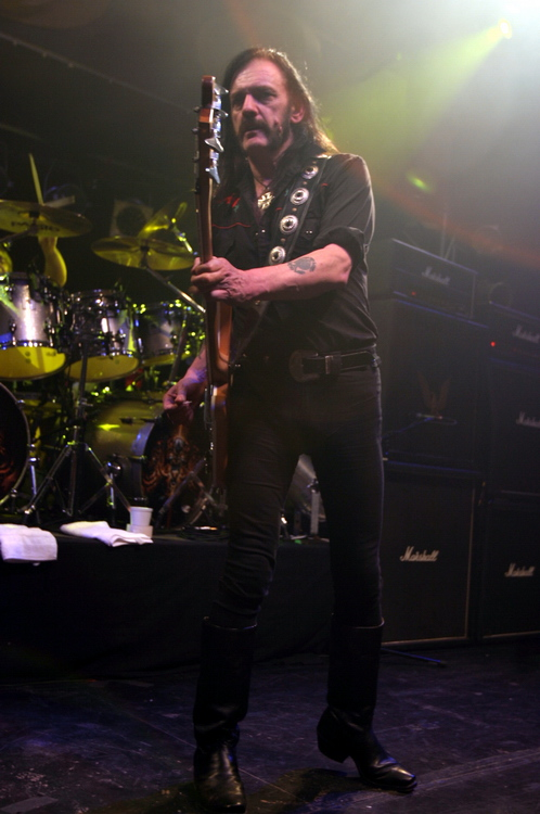 Lemmy Live at Reds, Edmonton, May, 2005